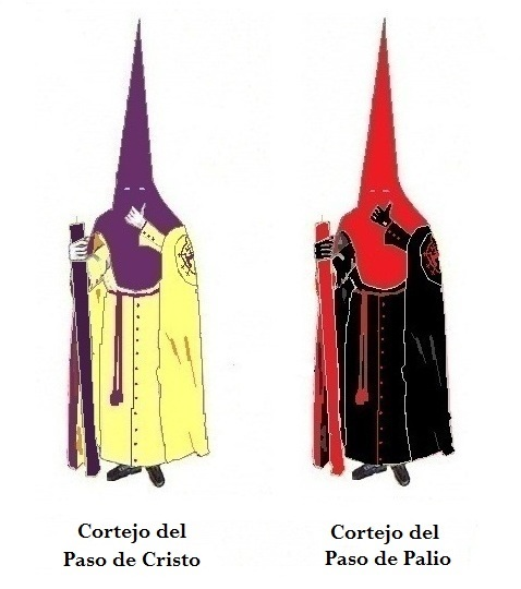 Hábito Nazareno de la Hdad. del Nazareno